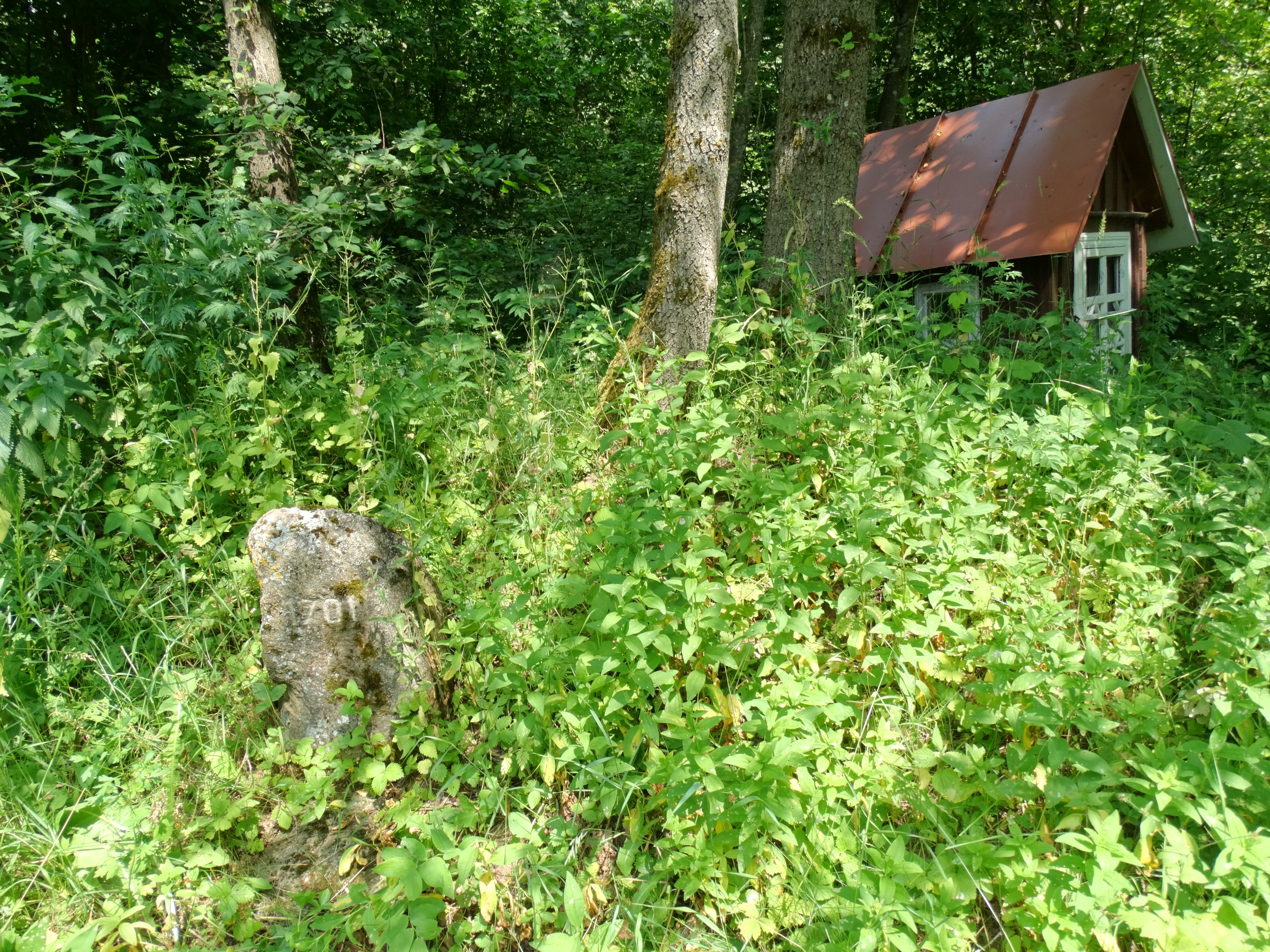 Chapel, Pavirvytis, Telšiai district, Lithuania